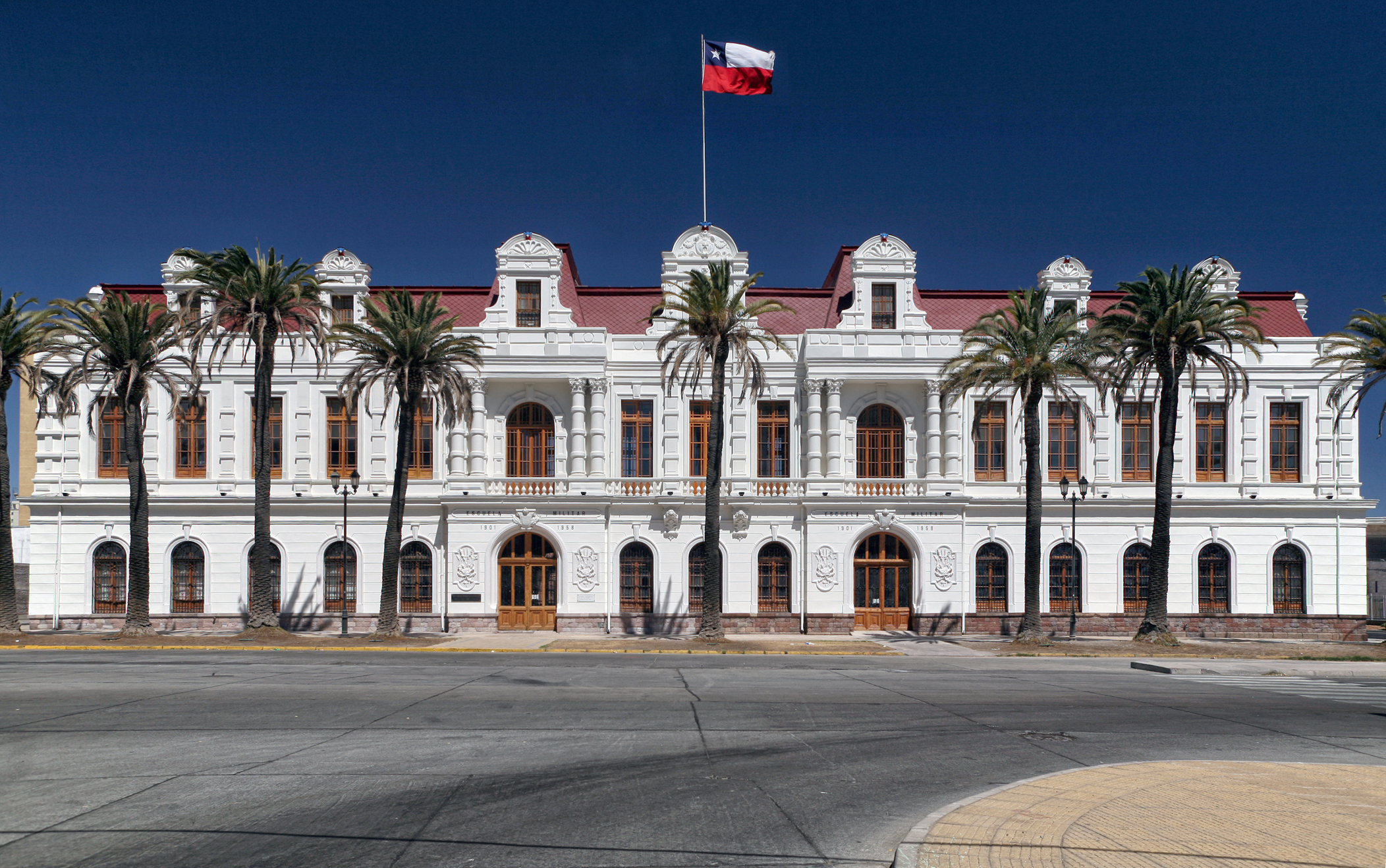 Former Military School This is a photo of a national monument in Chile: 213